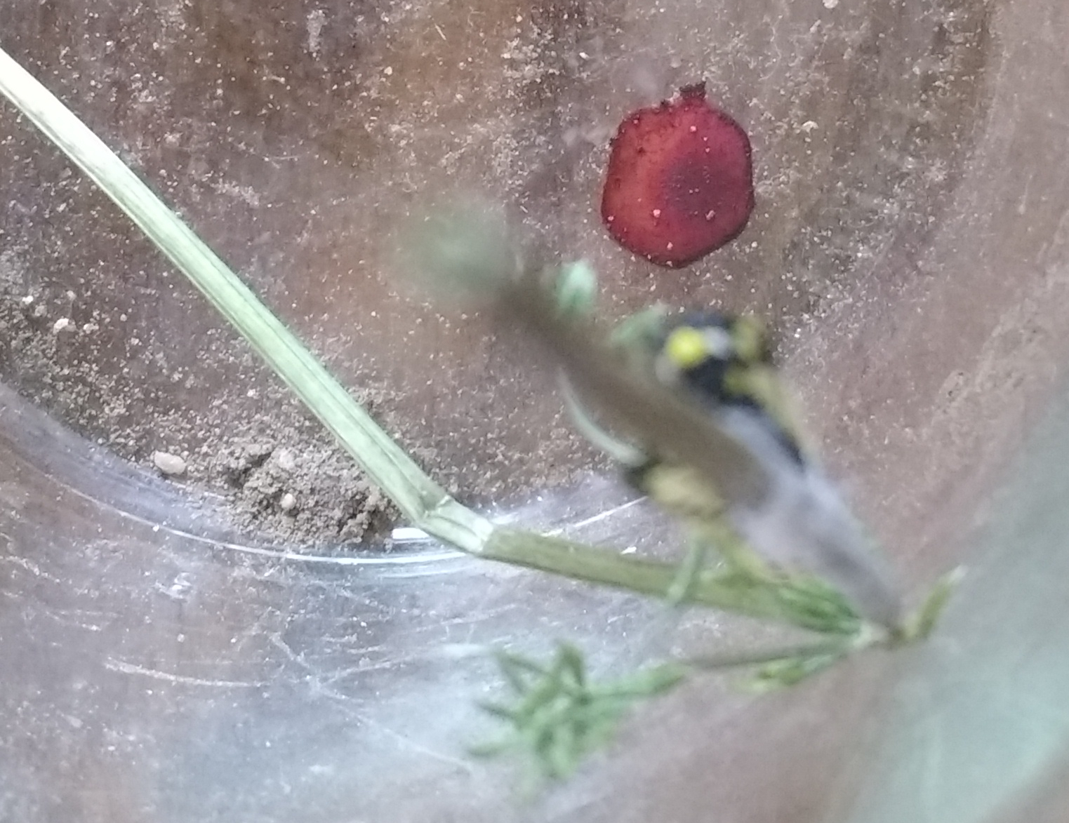 Red meconium ejected after the emergence of the butterfly Aporia crataegi from its pupae